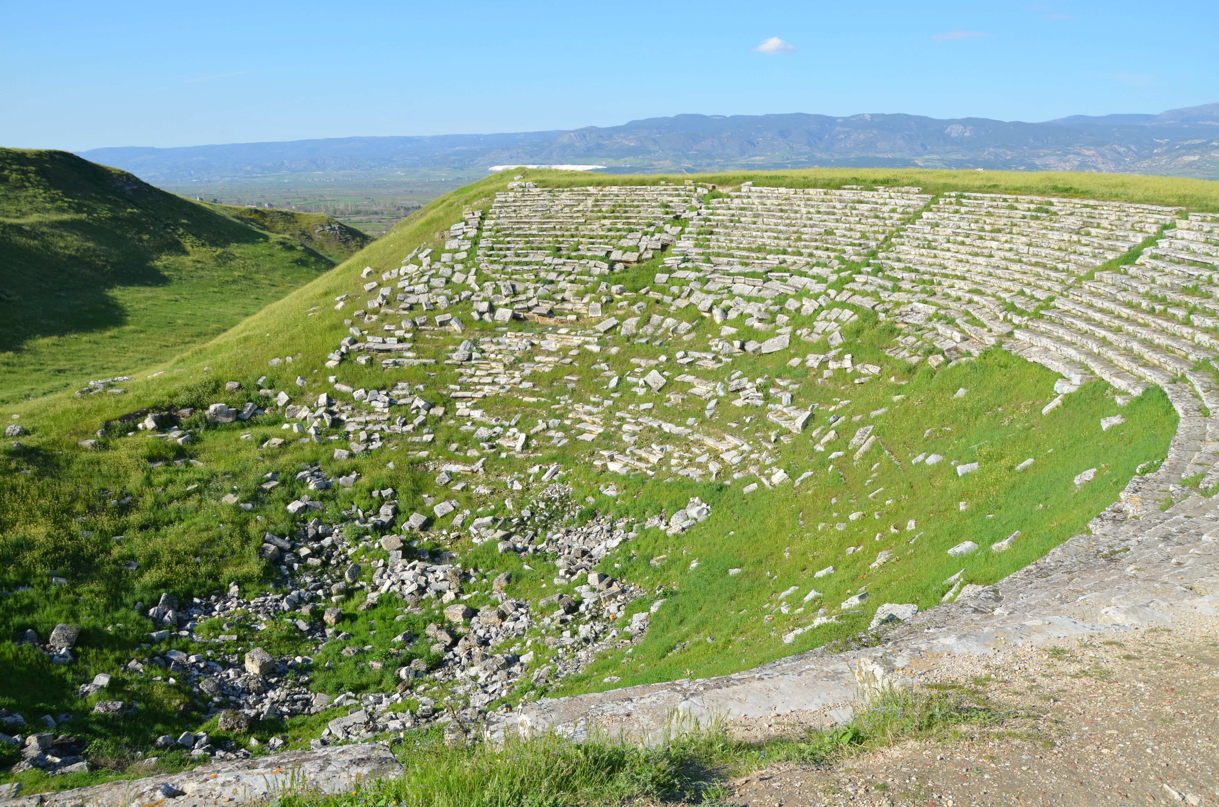 Laodicea on the Lycus, Phrygia, Turkey